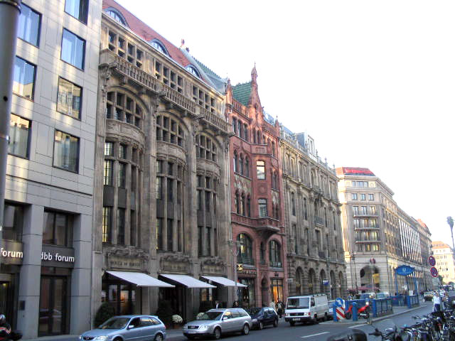 Description: Building at Friedrichstraße 165-168 in Berlin - heute dbb forum berlin Source: self-made. I release it into the public domain. Gryffindor 16:14, 6 February 2006 (UTC)